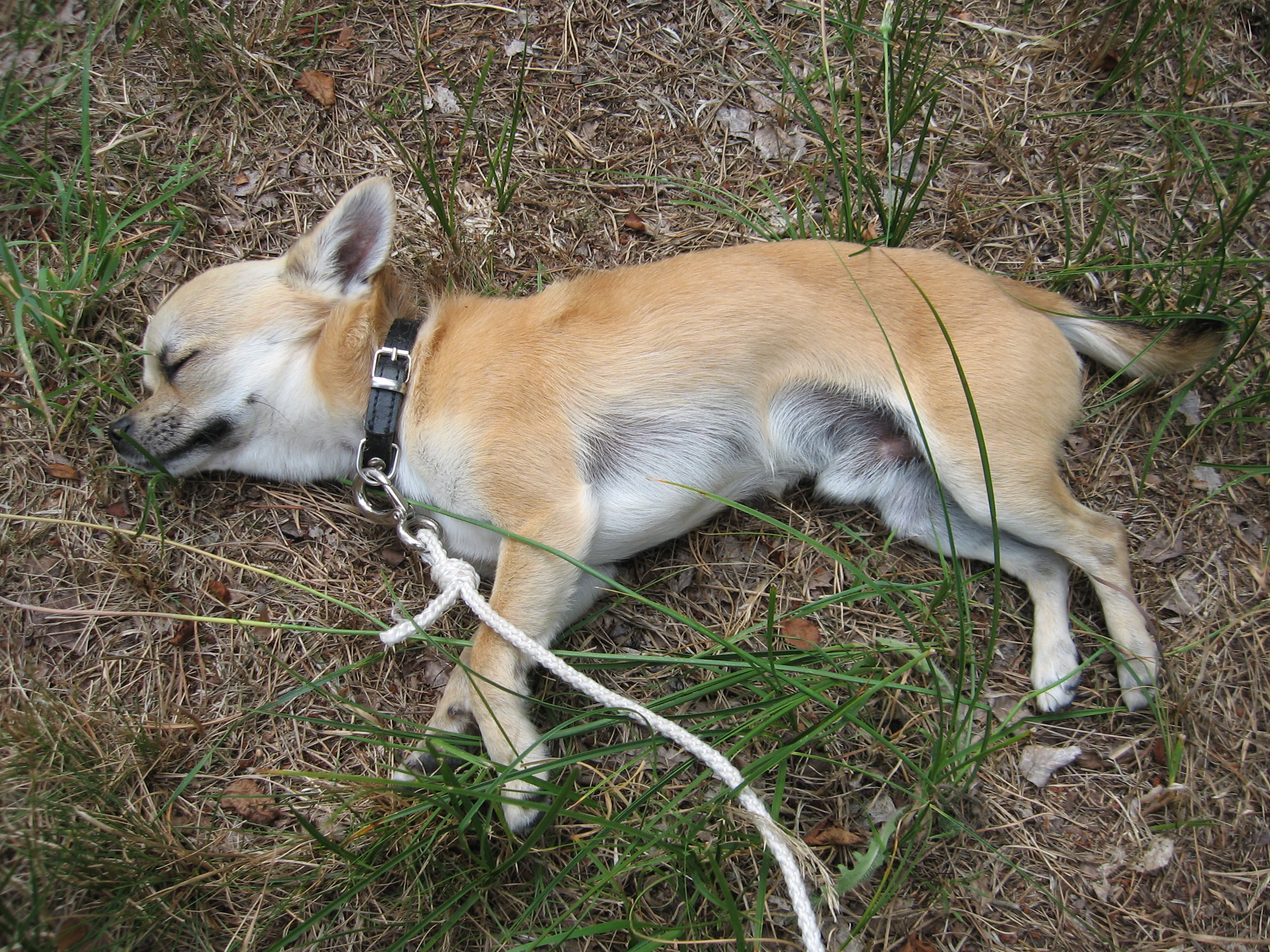 A Chihuahua resting.